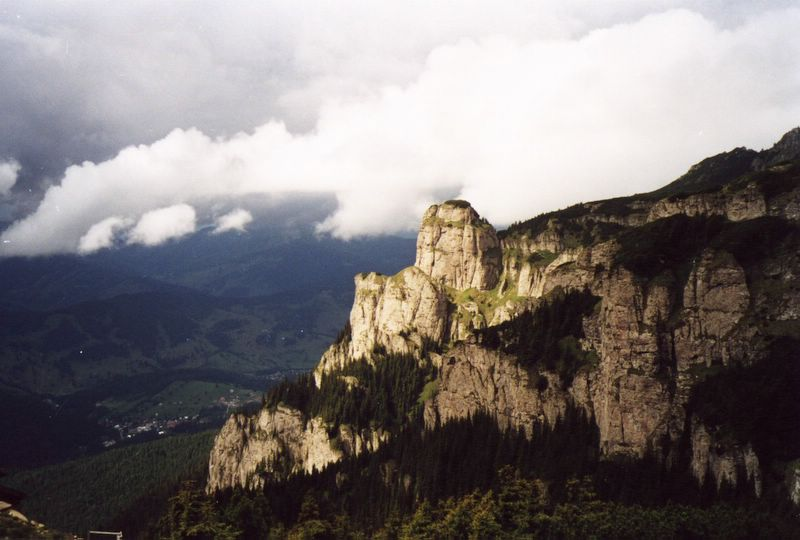 Mount Ceahlău—Piatra Lată din Ghedeon Author: Cristian Burlacu Year: 2004 Digitally enhanced by User:Mihai, 2006.